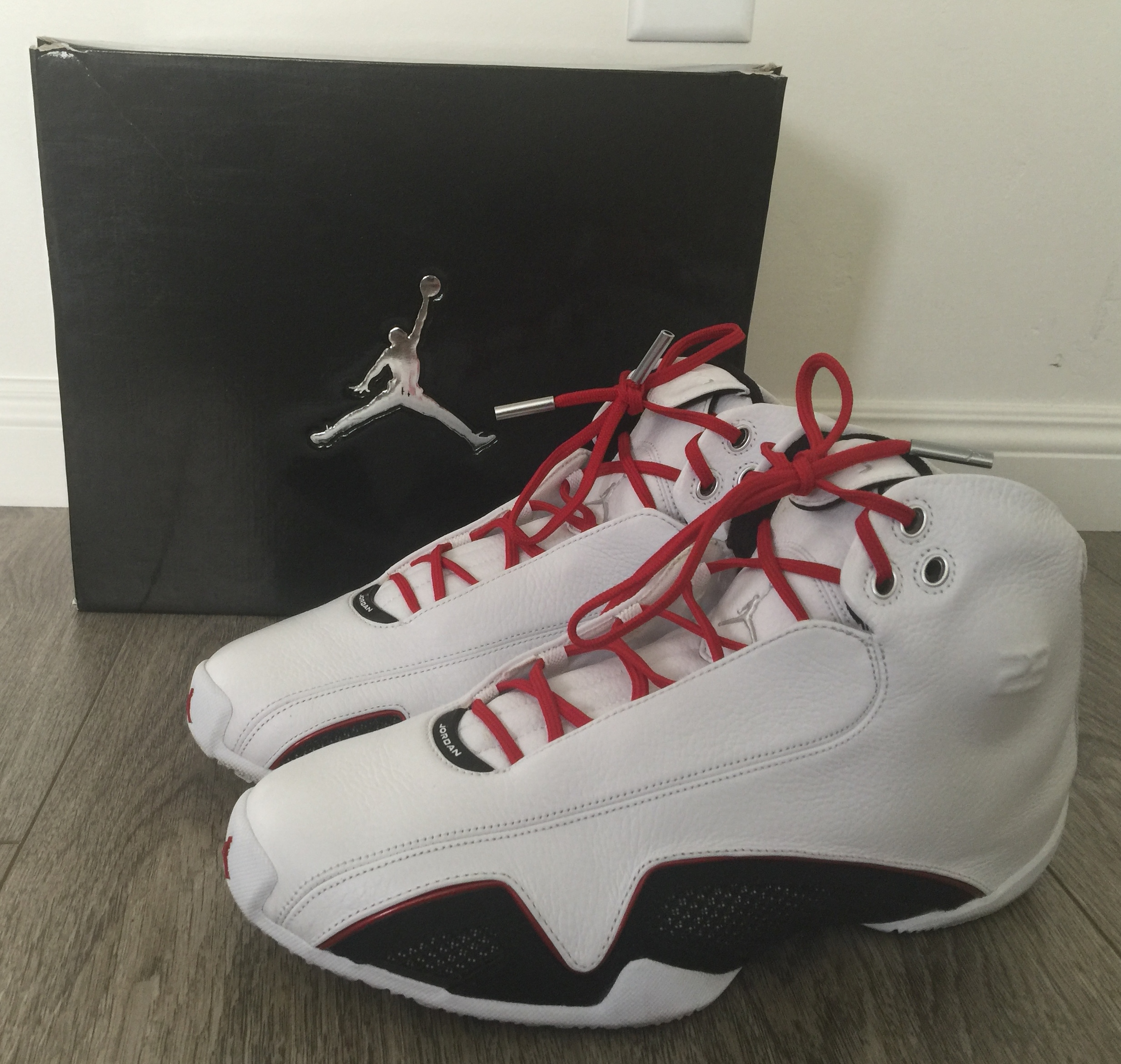 Nike Air Jordan XX1, (Bulls Colorway)